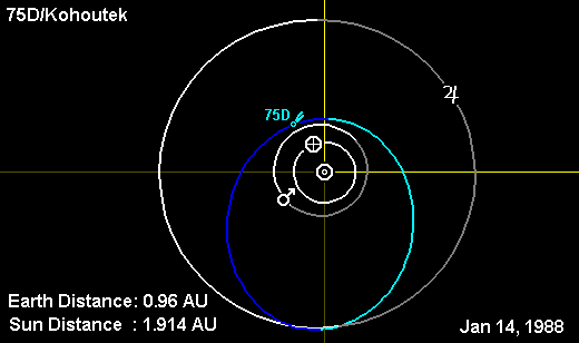 Orbit of the periodic comet 75D/Kohoutek. In the picture, Comet Kohoutek is represented in the point of maximun approach to the Earth, on 1988, January 14th during its 1987-88 return. Comet Sun distance and Earth distance are reported. Earth, Mars and Jupier orbits and positions are also reported.